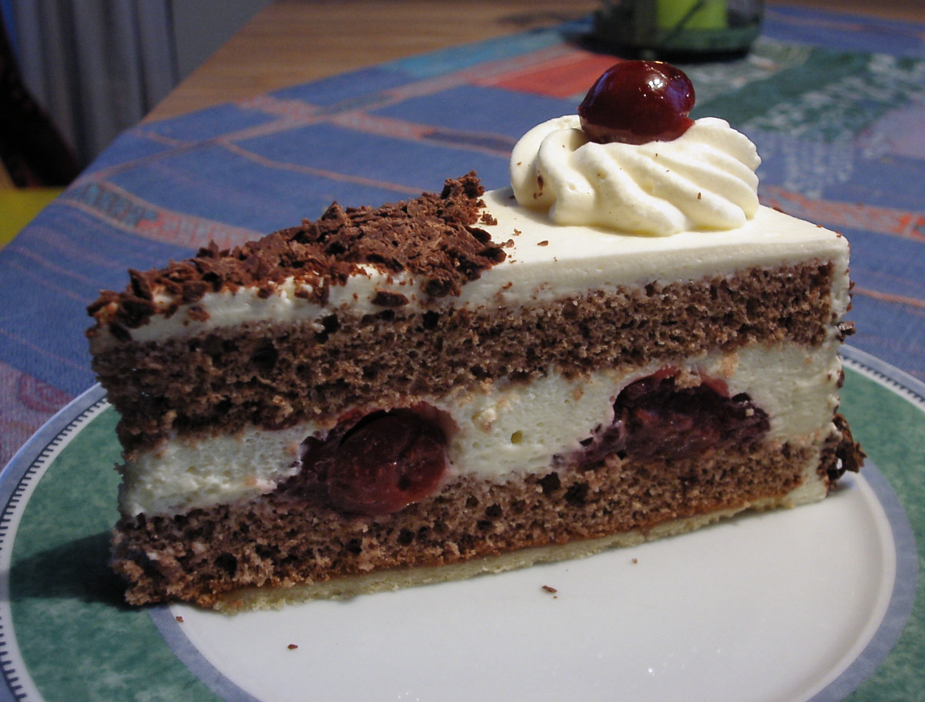 A slice of Schwarzwälder Kirschtorte (Black Forest cake)